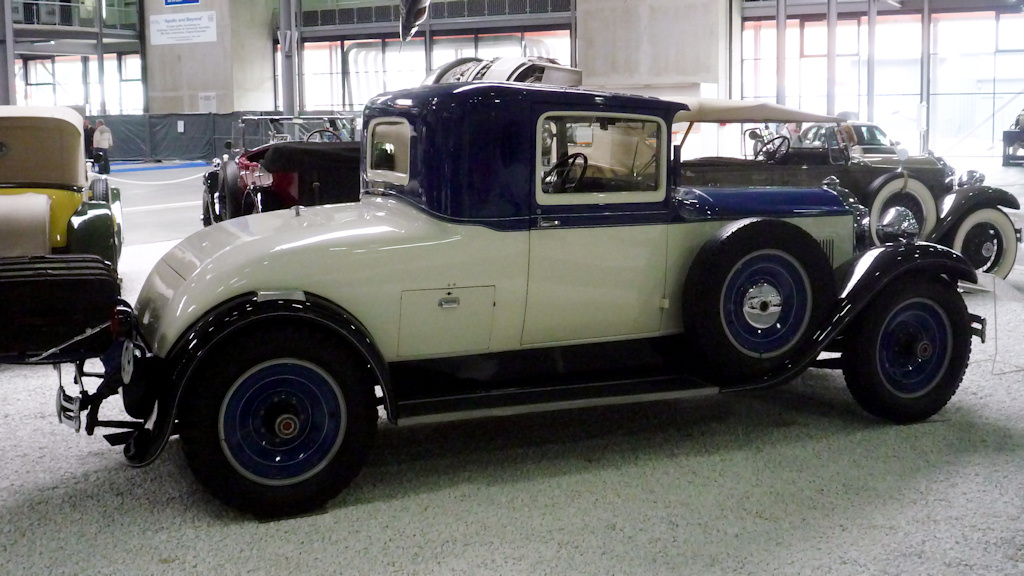 Packard Custom Eight (1929) at the Technik Museum Speyer